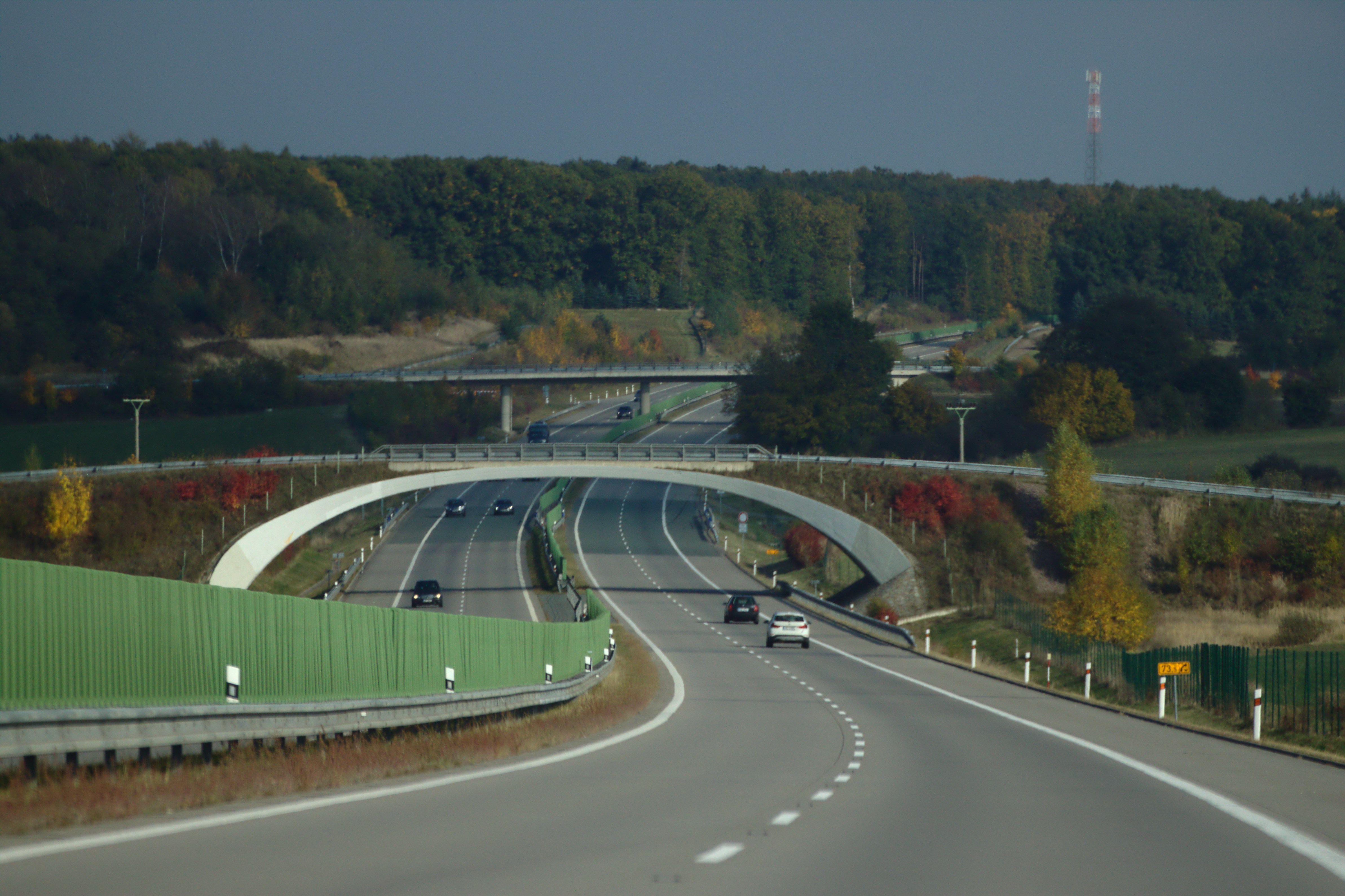 D11 Highway near Voleč, CZ